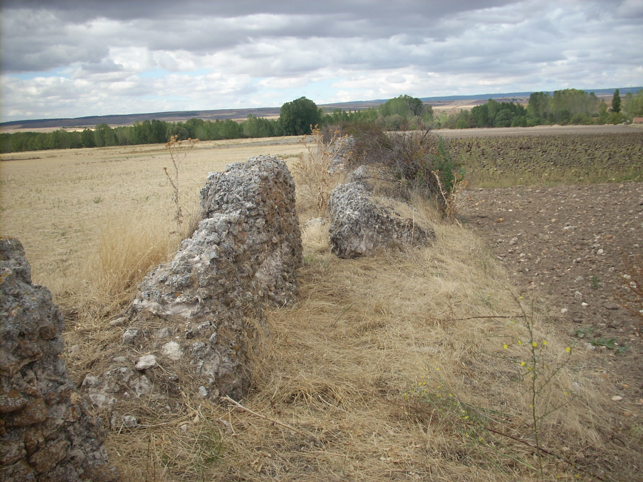 Confluenta roman city